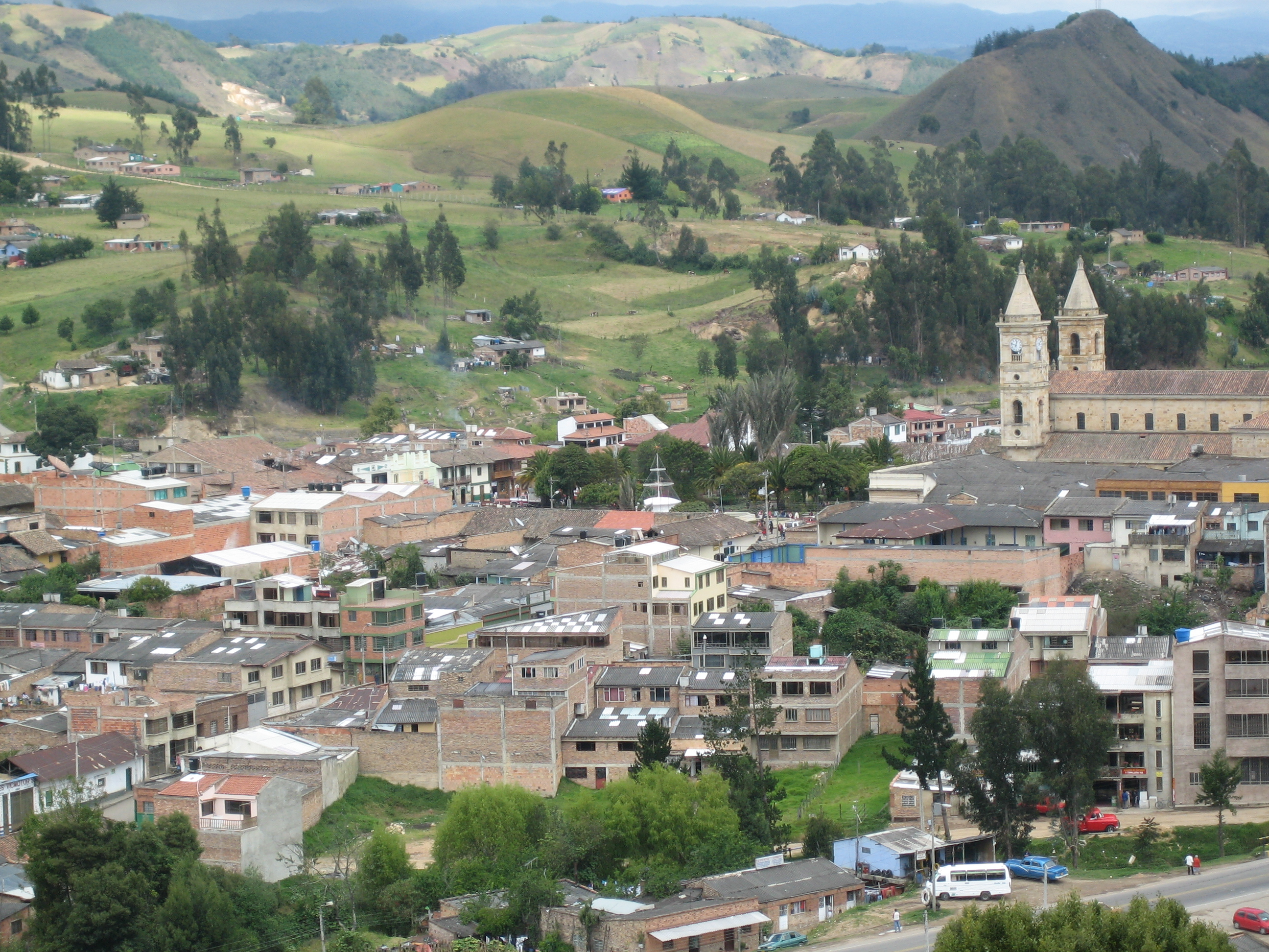 Pictuare captured from "Altamira", characteristic place in Villapinzón